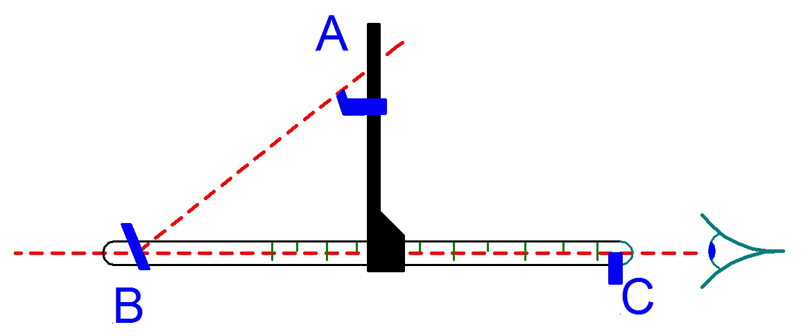 Drawing of a demi-cross navigational instrument